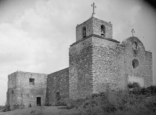 La Bahia Presidio Chapel, South on U.S. Route 183, Goliad (Goliad County, Texas) (cropped).